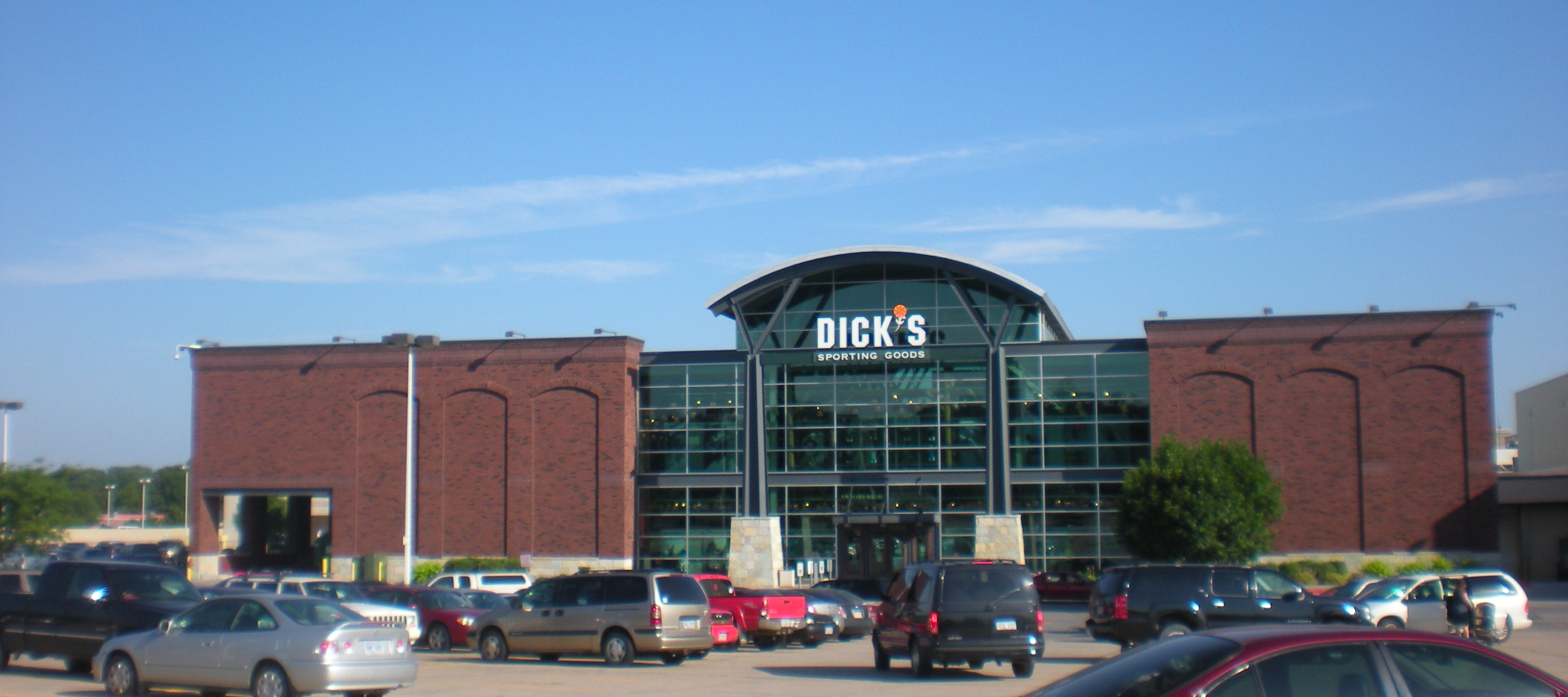 Dick's Sporting Goods (ex-Galyan's) at Westroads Mall Omaha